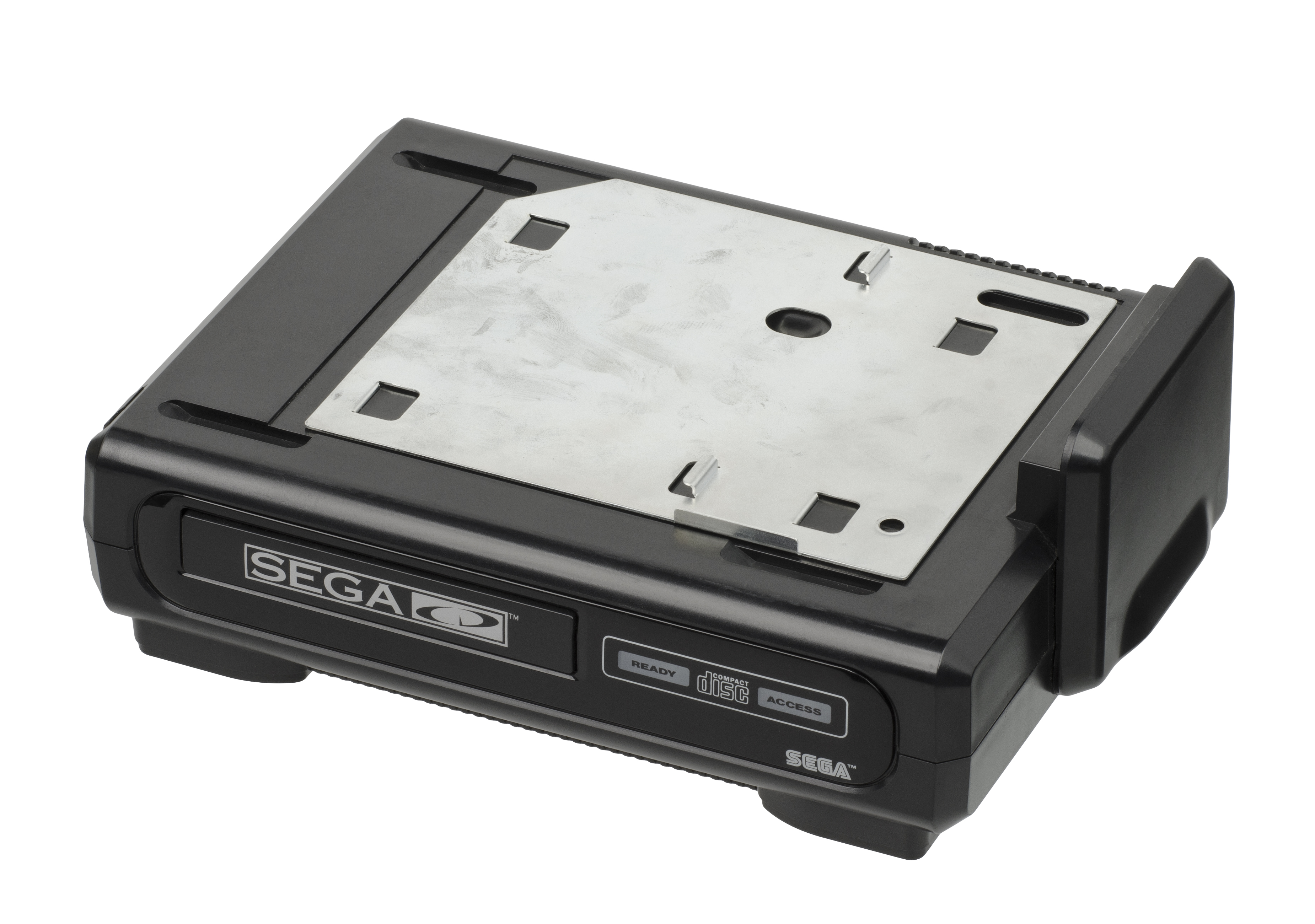 A bare model 1 Sega CD with the steel joining plate attached. This is a CD-ROM drive add-on that was released by Sega for its Genesis/Mega Drive video game console in 1991.